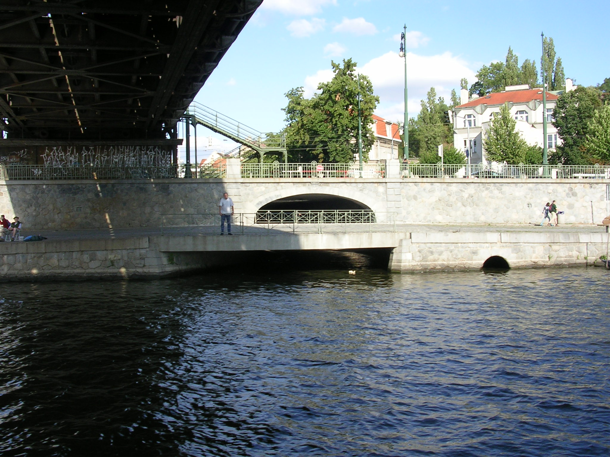 Rašínovo nábřeží, Prague, the Czech Republic. Influence of Botič Creek into Vltava River.